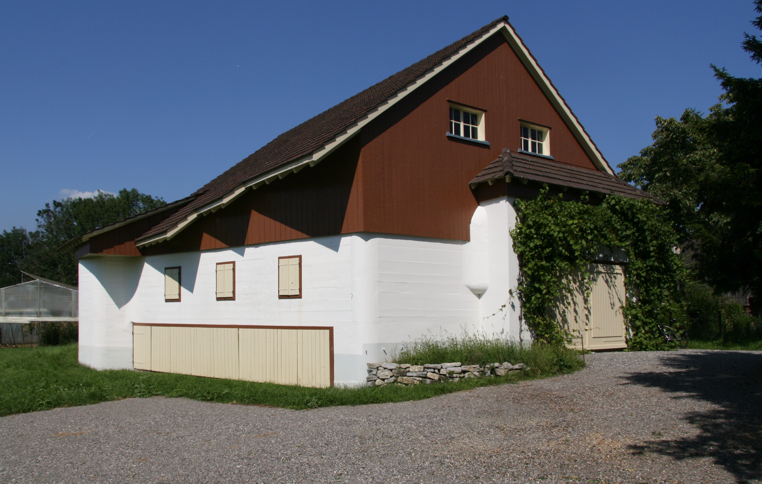 Camouflaged bunker in a building, Bottighofen, district of Kreuzlingen, canton of Thurgau, Switzerland